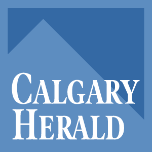 Logo from Postmedia owned newspaper, The Calgary Herald. From newspaper's website homepage.